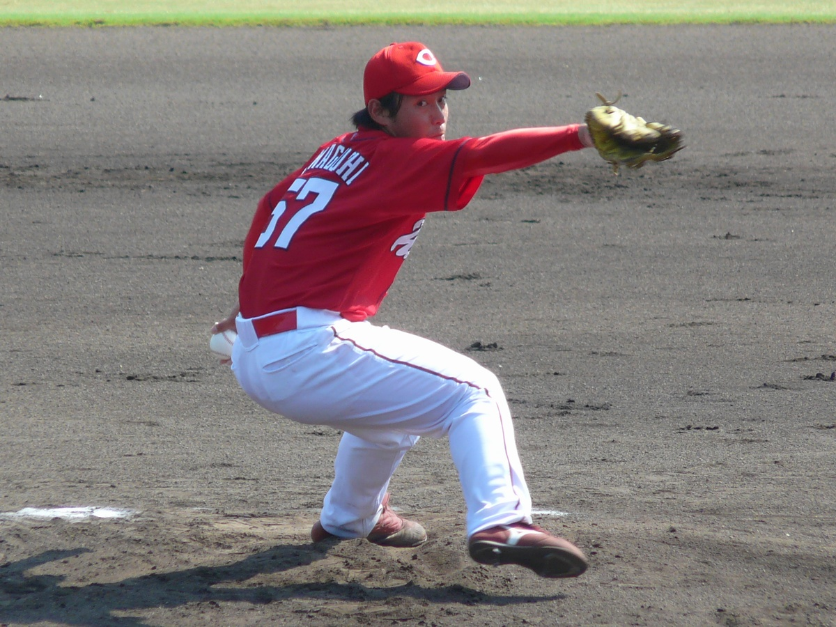 HC-Taketo-Kawaguchi20100824